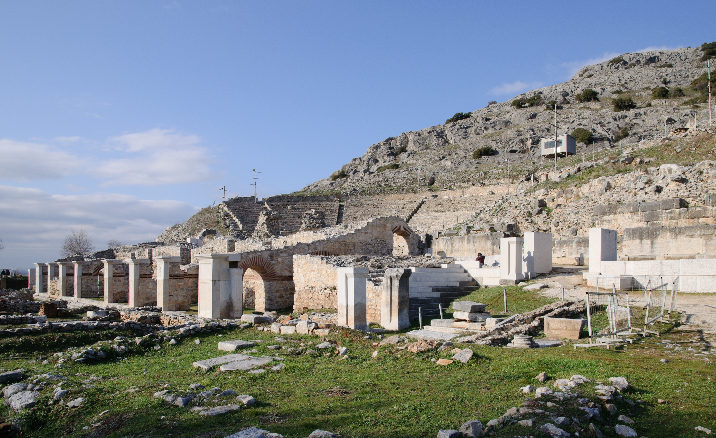 The archaeological site of the ancient town of Philippi, Greece. The area near the big theater.